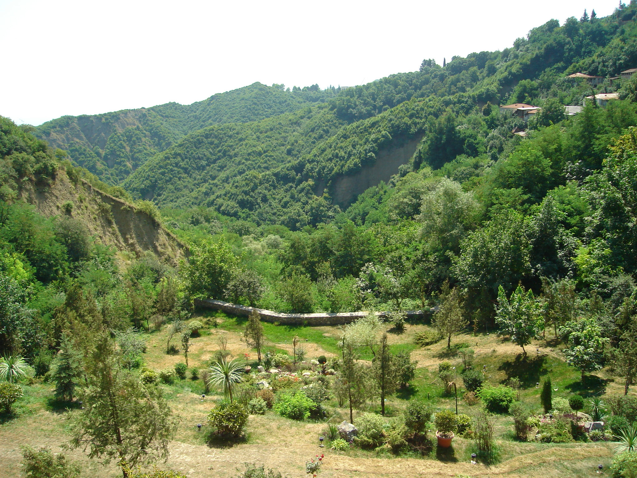 Sighnaghi, Georgia